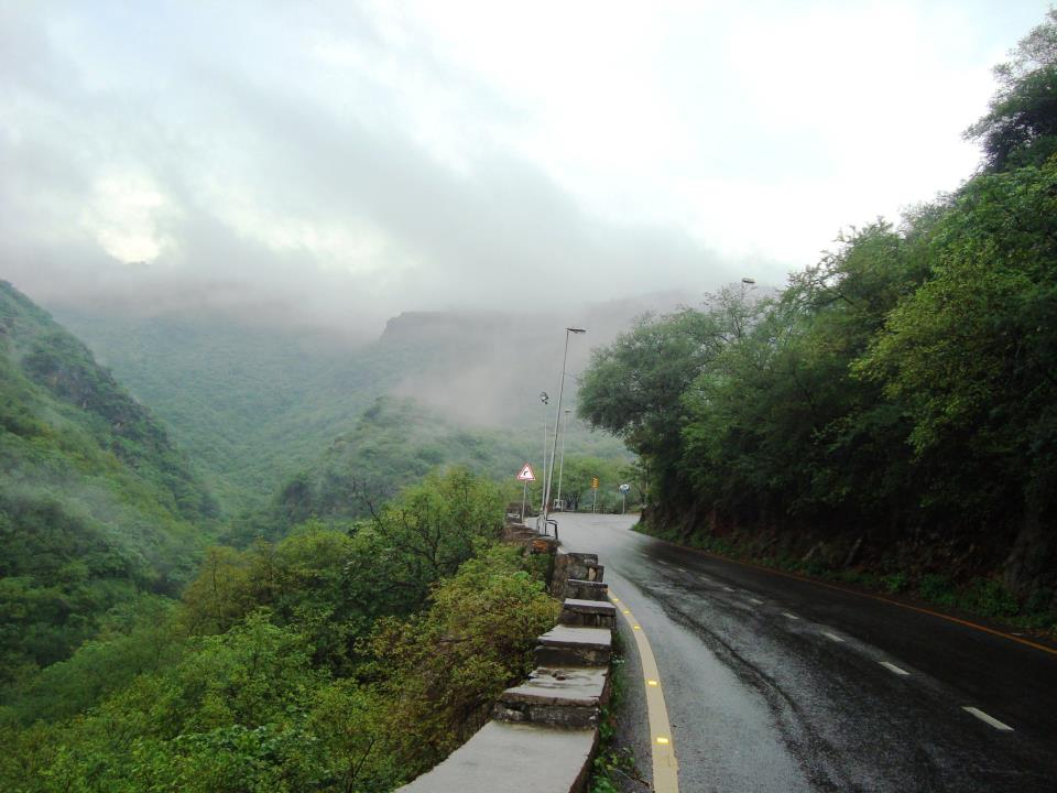 The Margalla Hills National Park is located in Islamabad, Pakistan at the foothills of the Himalayas and is a National Park. It is approximately 17,386 hectares in size.